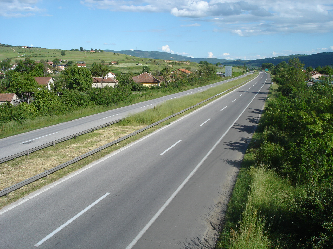 Motorway "Alexander of Macedon" , Macedonia